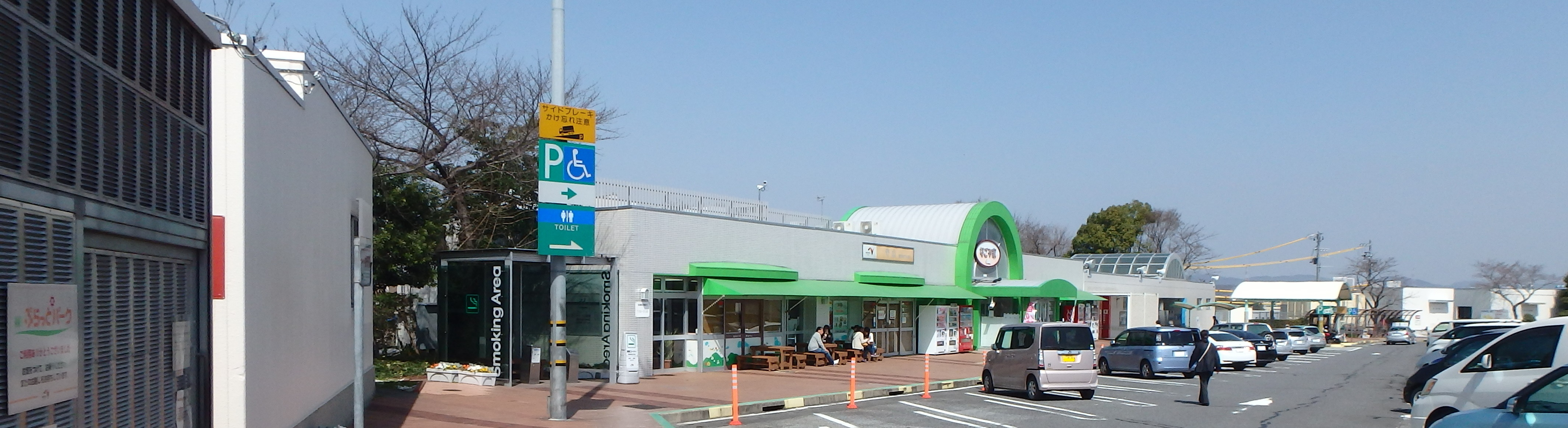 Moriyama Parking Area for Osaka,Aichi prefecture,Japan